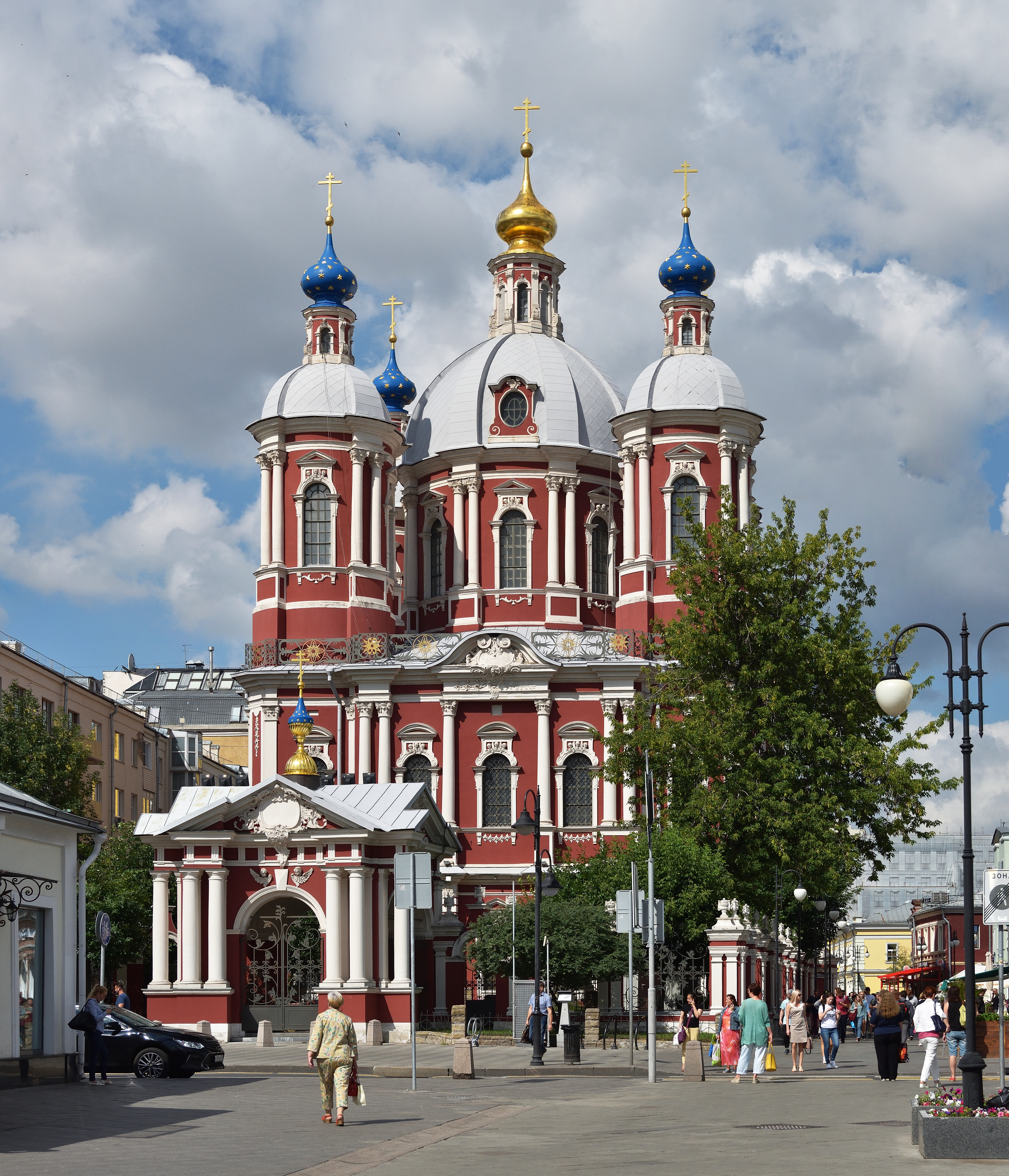 Church of Saint Clement, the Pope of Rome, Moscow, Russia